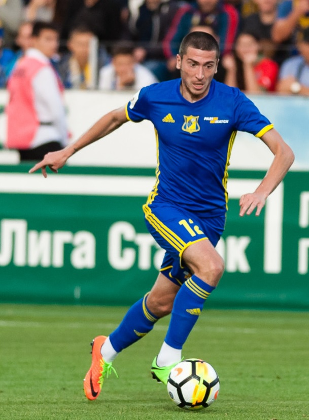 Aleksei Ionov with FC Rostov in a game against FC Lokomotiv Moscow.